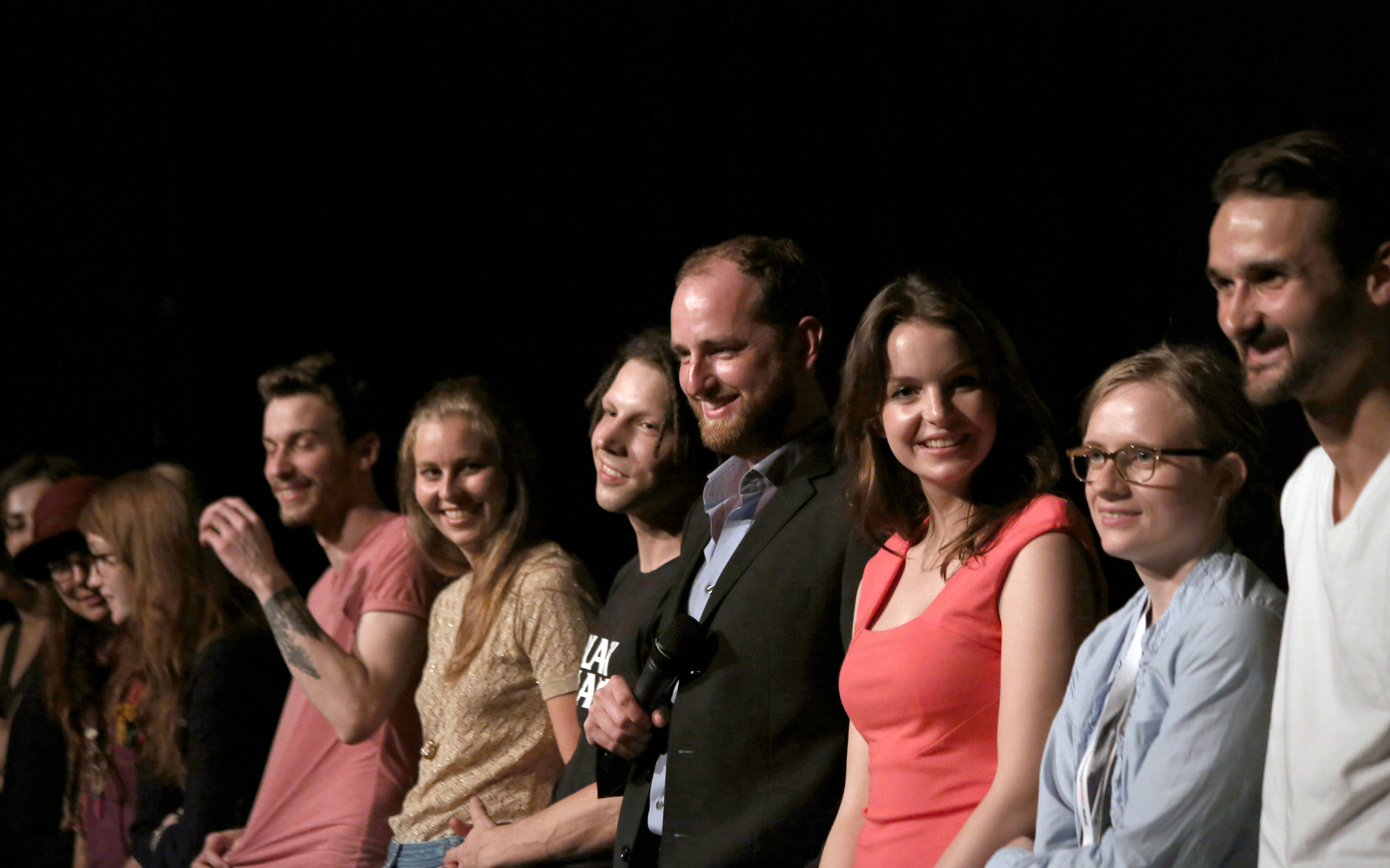 Director Mark Gerstorfer and producer Steven Swirko with the team of the film Erlösung/Salvation at the film festival Vienna Independent Shorts 2014 at Stadtkino at Vienna Künstlerhaus (Vienna, Austria).